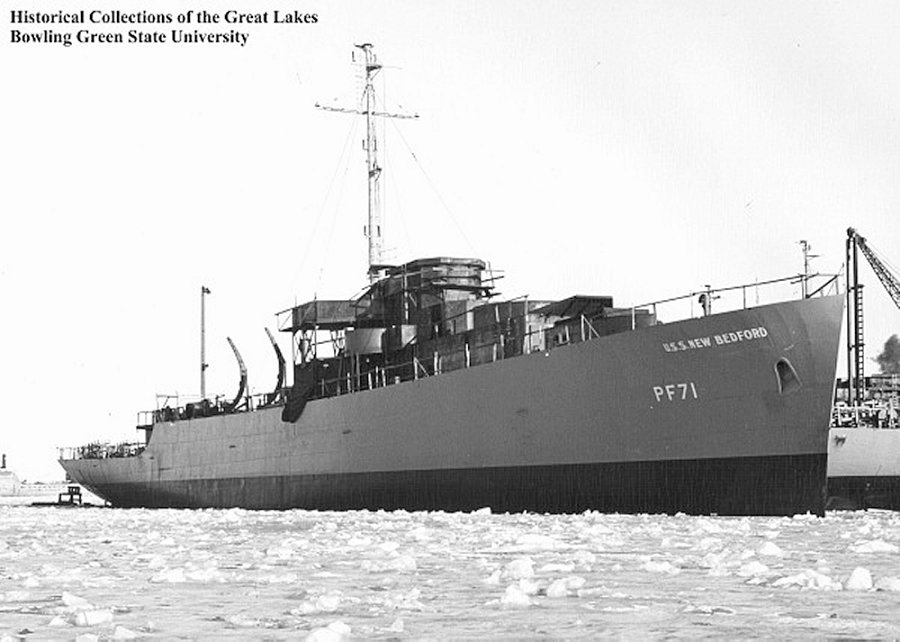 The USS New Bedford shortly after her launch on 29 December 1943.